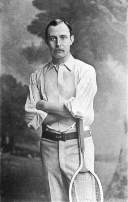 Ernest Renshaw (1861-1899), English tennis player, Wimbledon Champion 1888